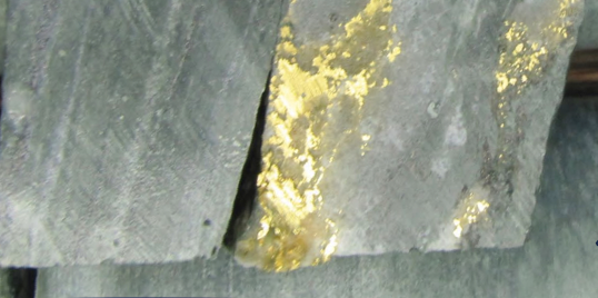 NioGold mining corporation gold core veins